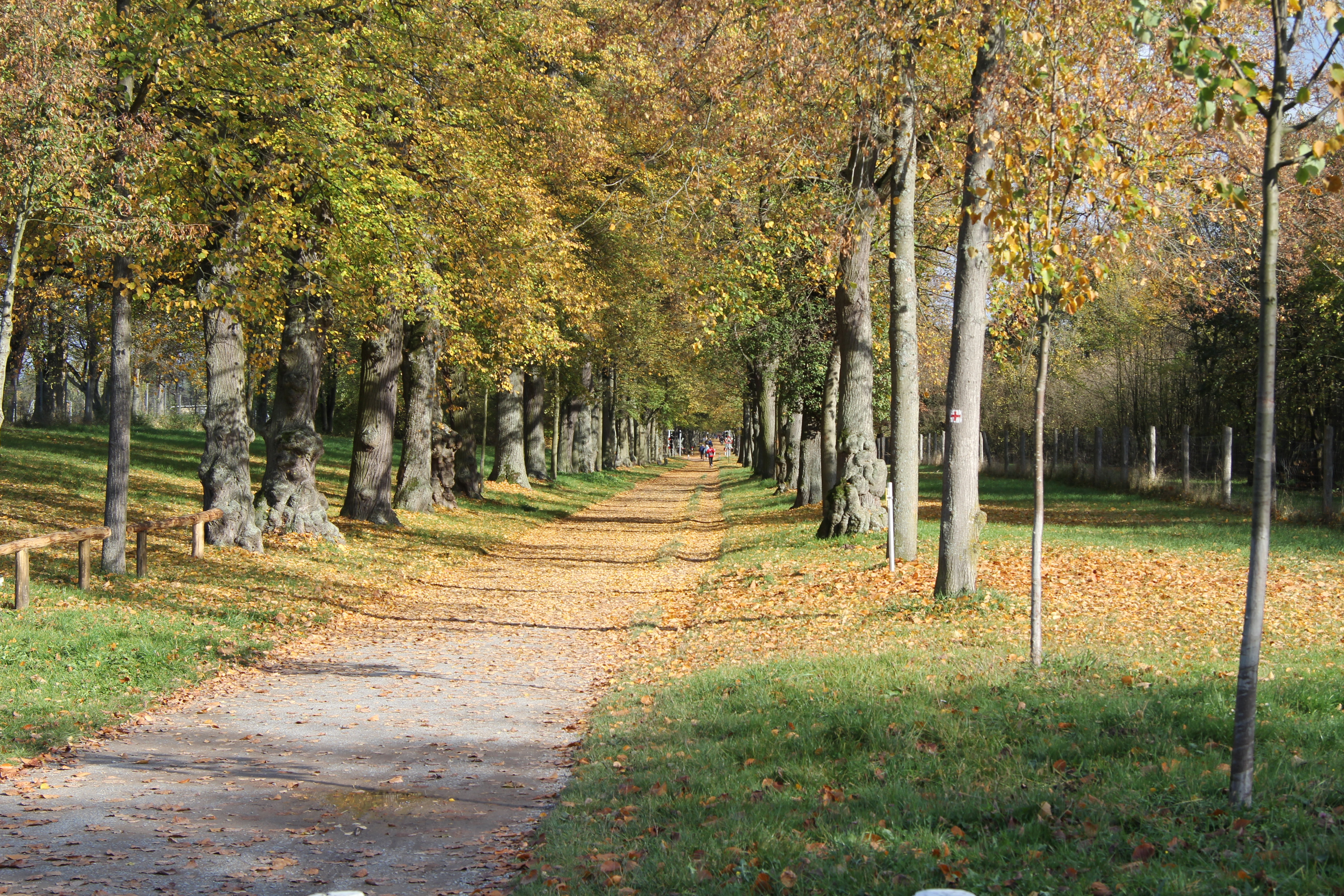 Little Schönbusch Alley, direction Aschaffenburg, Bavaria/Germany